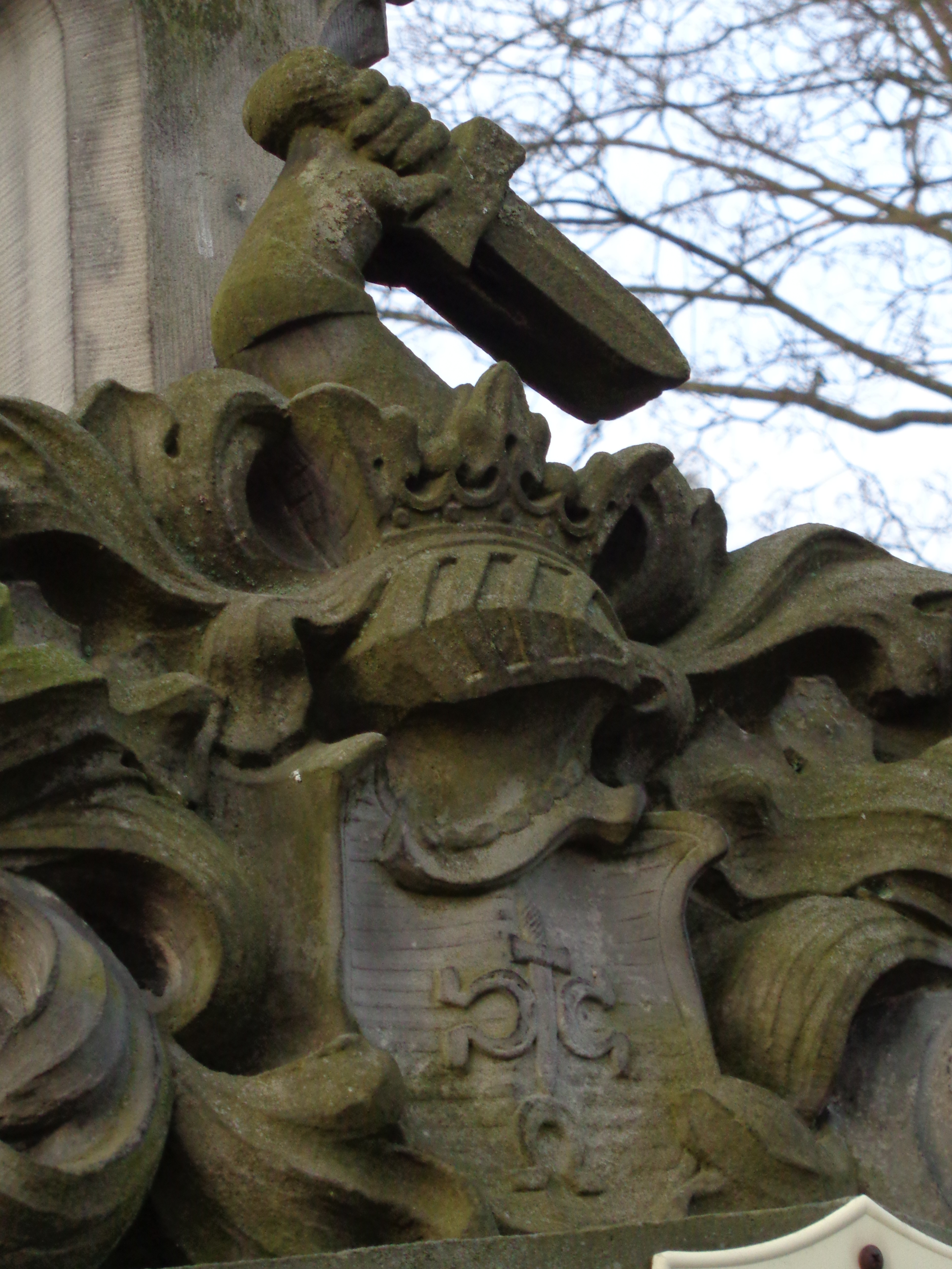 Detail from Bronisław Belina-Węsierski (1876-1916) grave on Communal Cemetery - Belina Coat of Arms. Rittmeister of Cavalry Bronisław Węsierski died at 12th of August 1916 year in Crefeld-Rheinland captive camp, during World War I.